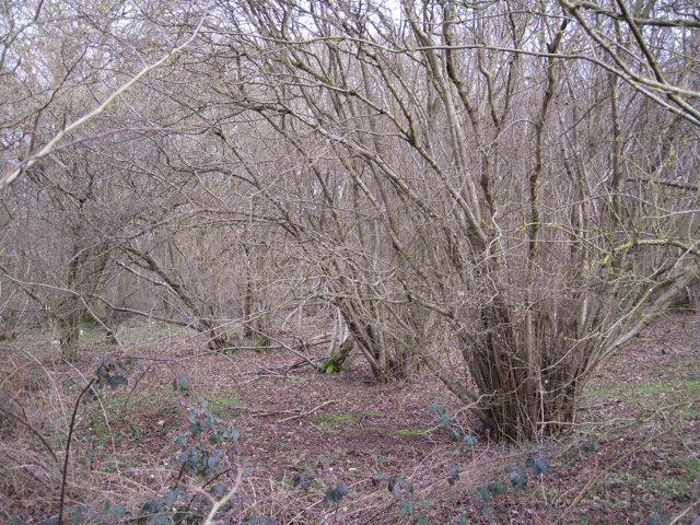 Hazel coppice, Bubbenhall Wood. The stools look older and more established than some elsewhere in the wood, which is a relatively young oak wood. Leaves of bluebells are pushing through the surface litter.